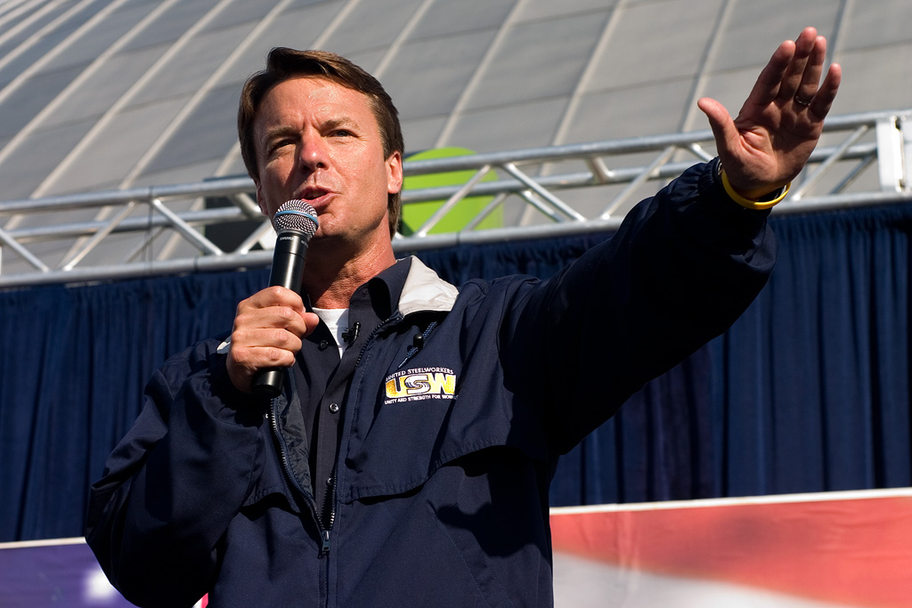 Presidential candidate John Edwards, 3. September 2007 in Pittsburgh, PA.